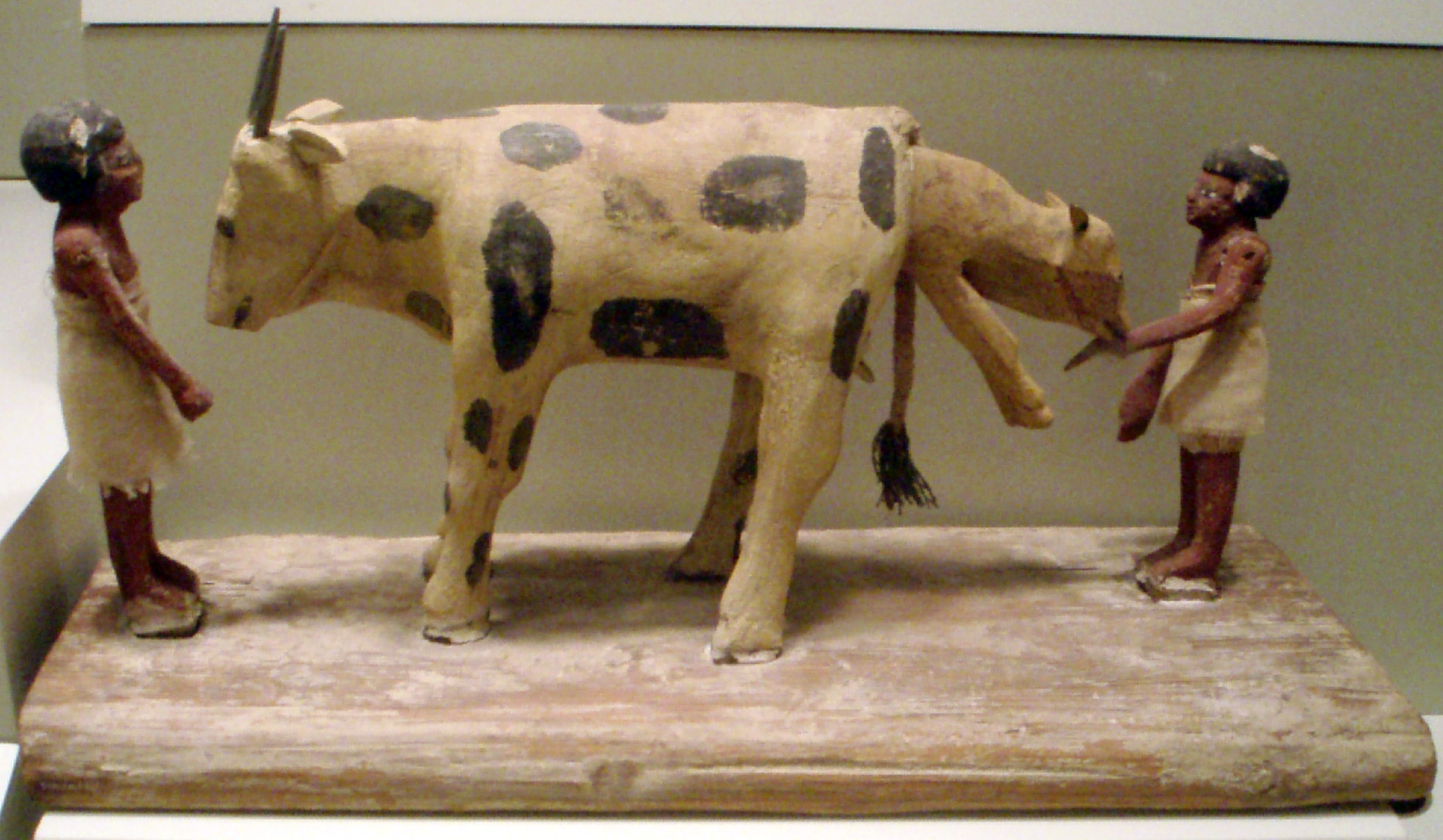 Ancient Egyptian tomb figurines and a birthing cow. Dates to the early Middle Kingdom, circa 2000 BC.